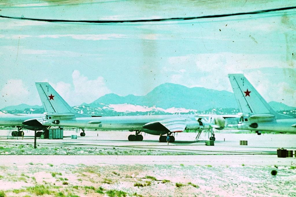 Tupolev Tu-142M.